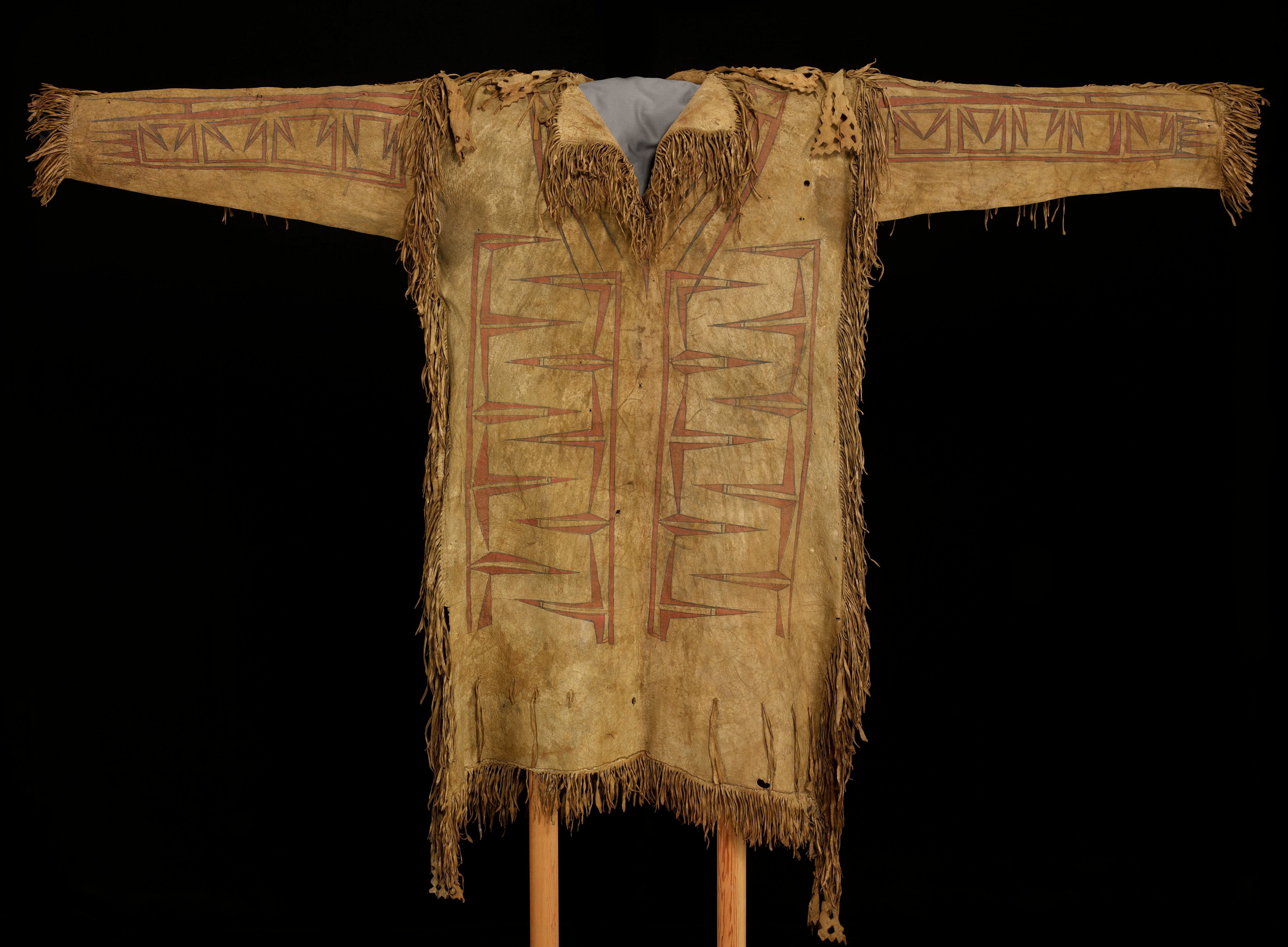 Woodlands Shirt, c. 1720-1750 possibly Antelope hide, pigments, cotton thread, sinew The Robert J. Ulrich Works of Art Purchase Fund 2011.1 This one-of-a-kind shirt was created in the 18th century by Native Americans living in the Great Lakes or Woodlands region. Early French explorers interacted and traded with Native American tribes in the area referred to as New France, a French colony that existed from 1534-1763. This area initially extended from the state of New York to Minnesota, and from Canada to Louisiana. News of interesting "primitive" Native American people was sent to French royalty who demanded items created by these people be brought back home. This garment would have been worn by a Native American man of high status, and was created and painted by a woman. The animal hide is probably antelope, traded from the tribes to the west because it is stronger and thinner than deer hide. The shirt has elements from Woodlands, Great Lakes, and Plains regions, and the complex designs may have been inspired by tattooing. Shown headless and with pointed body and wings, the interlocking abstracted painted designs on the body probably represents the sacred Thunderbird, an important being in traditional Native American spirituality. The extreme degree of stylization clearly demonstrates that artistic abstraction was practiced by Native artists at the time. With less than 35 surviving objects from the early 1700s decorated with abstract painting of these regions, this is the only known surviving example of a painted shirt.